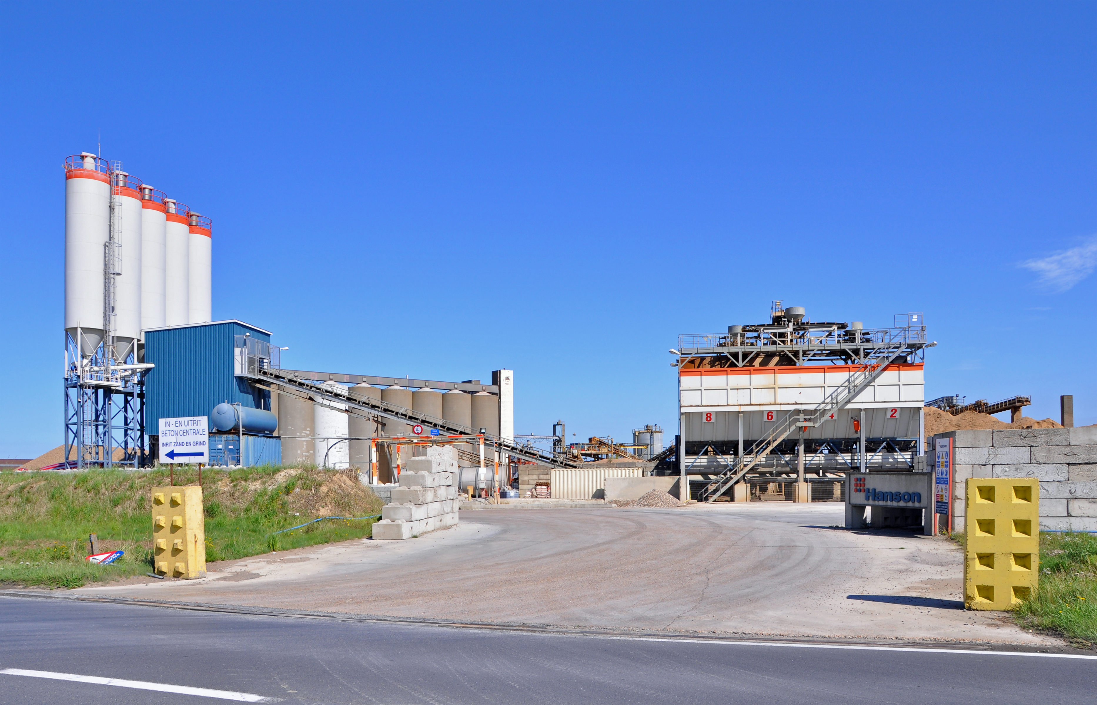 Zeebrugge (Belgium): Hanson concrete plant